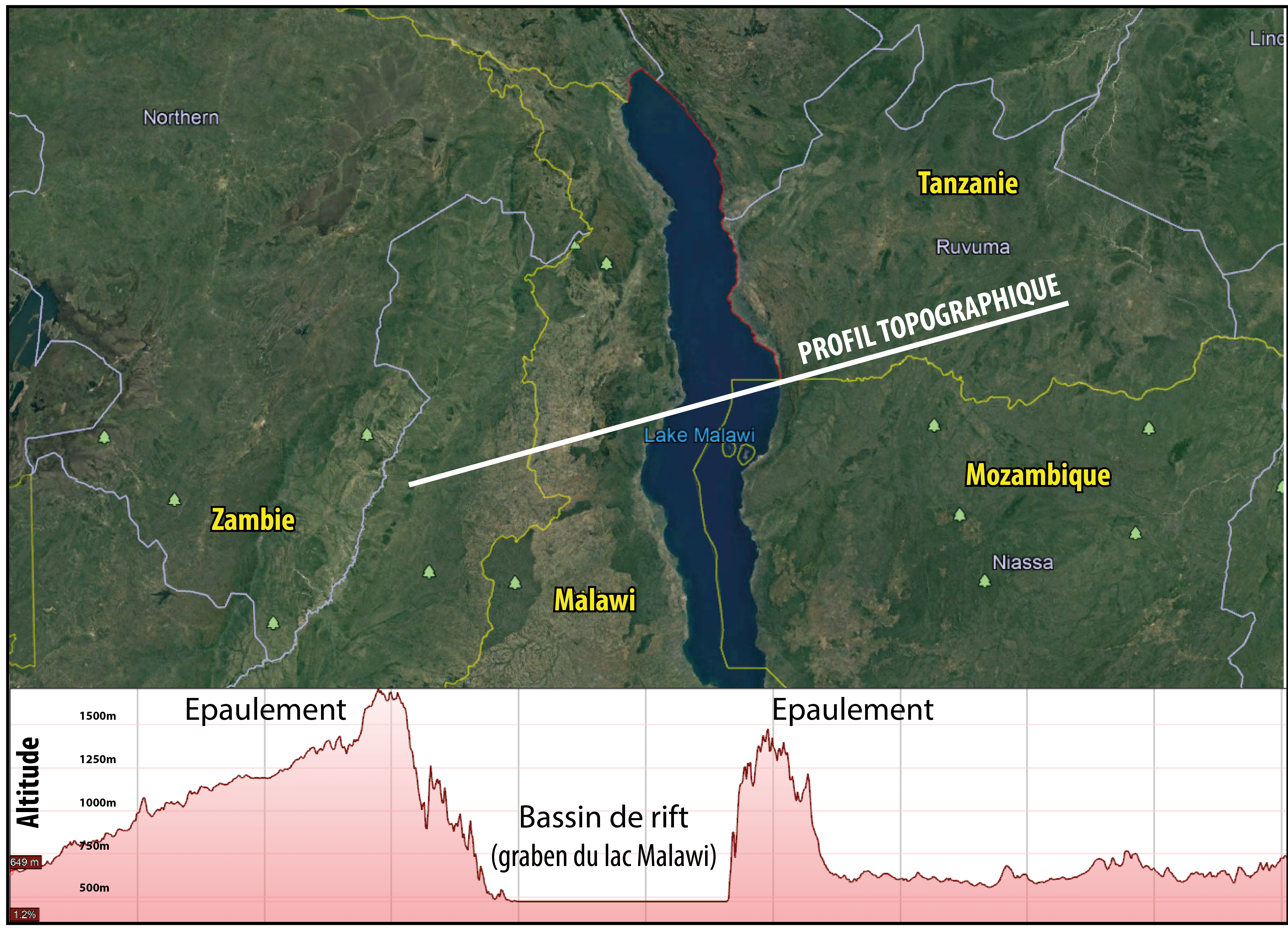 Topographic profile of the Malawi lake, image background and topographic profiles made using Google Earth software (Image Landsat / Copernicus 2018 AfriGIS (Pty) Ltd). The use of such image is authorised by Google under its Fair Use policy upon correct acknowledgement. details